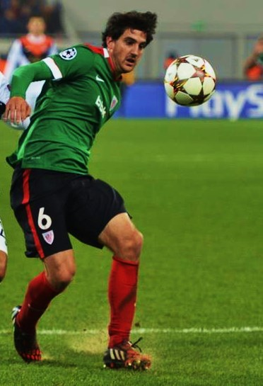 Mikel San José